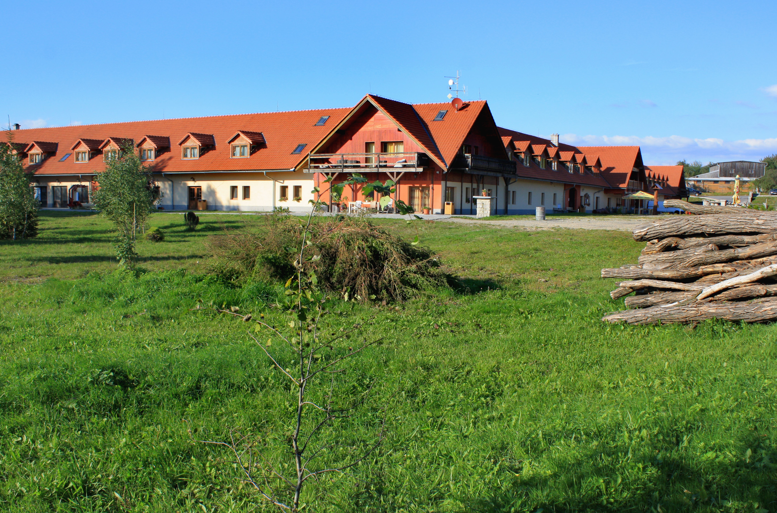 Farm in Vysoká, part of Chrastava, Czech Republic